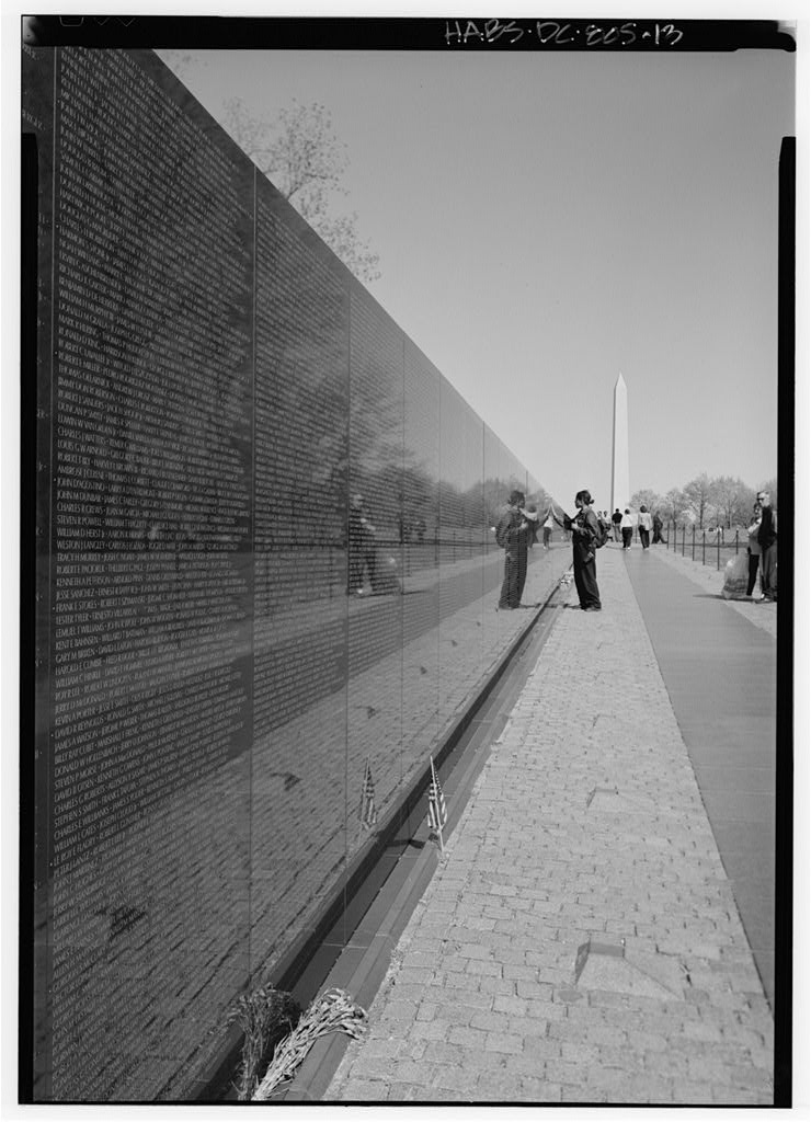 Photographic view of the apex of the Vietnam War Memorial, West Potomac Park, Washington, D.C., looking from the apex towards the Washington Monument. Courtesy of the Historic American Buildings Survey, Library of Congress, Washington, D. C.